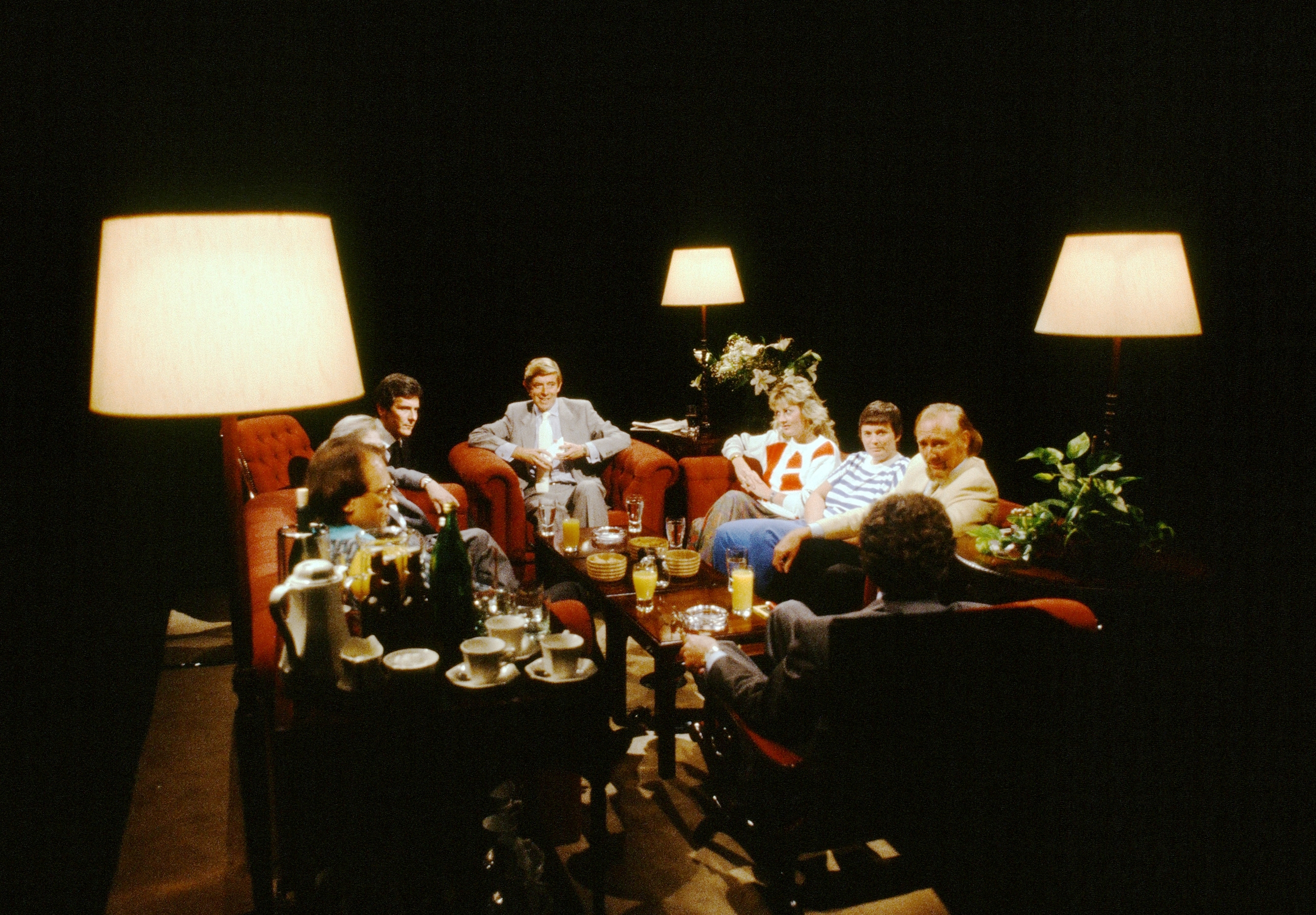 TV discussion After Dark on 13 August 1988, on the subject of "Money". Henry Kelly, that week's host, with among others Owen Oyston, Nicholas van Hoogstraten and Marie Jahoda